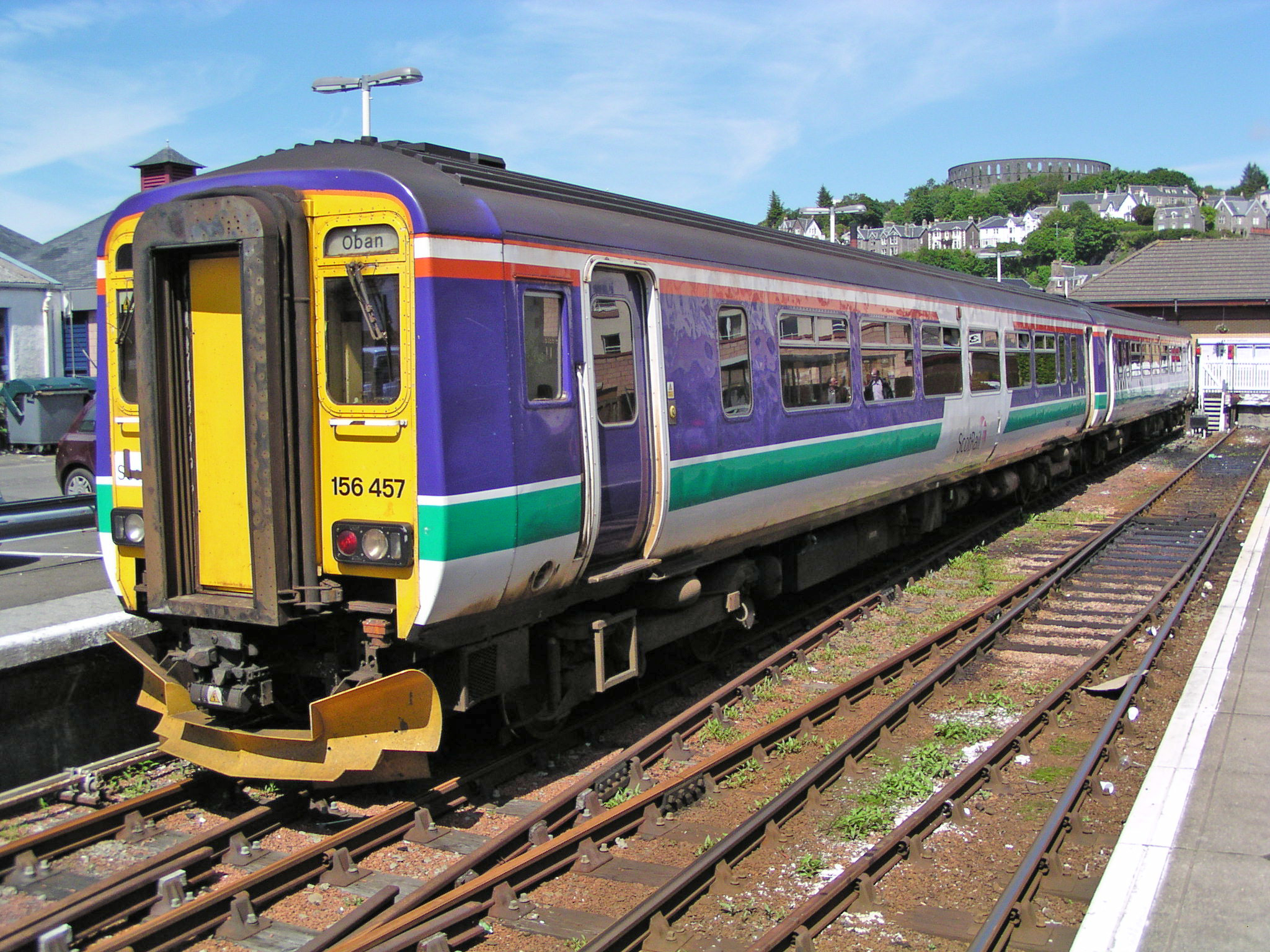 BR Class 156, no. 156457 at Oban on 25th June 2005. This unit is painted in ScotRail livery, but with First Group branding.